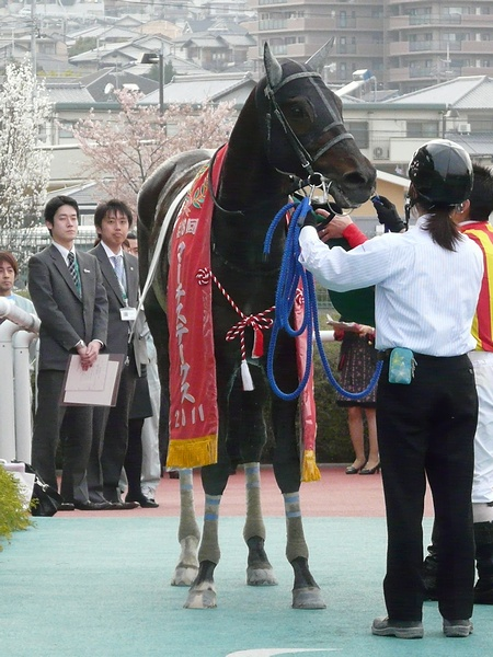 Testa-Matta20110410